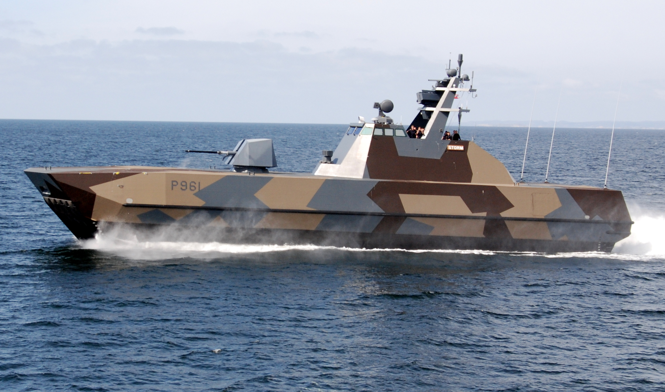 Skjold-class fast attack craft KNM Storm of the Royal Norwegian Navy